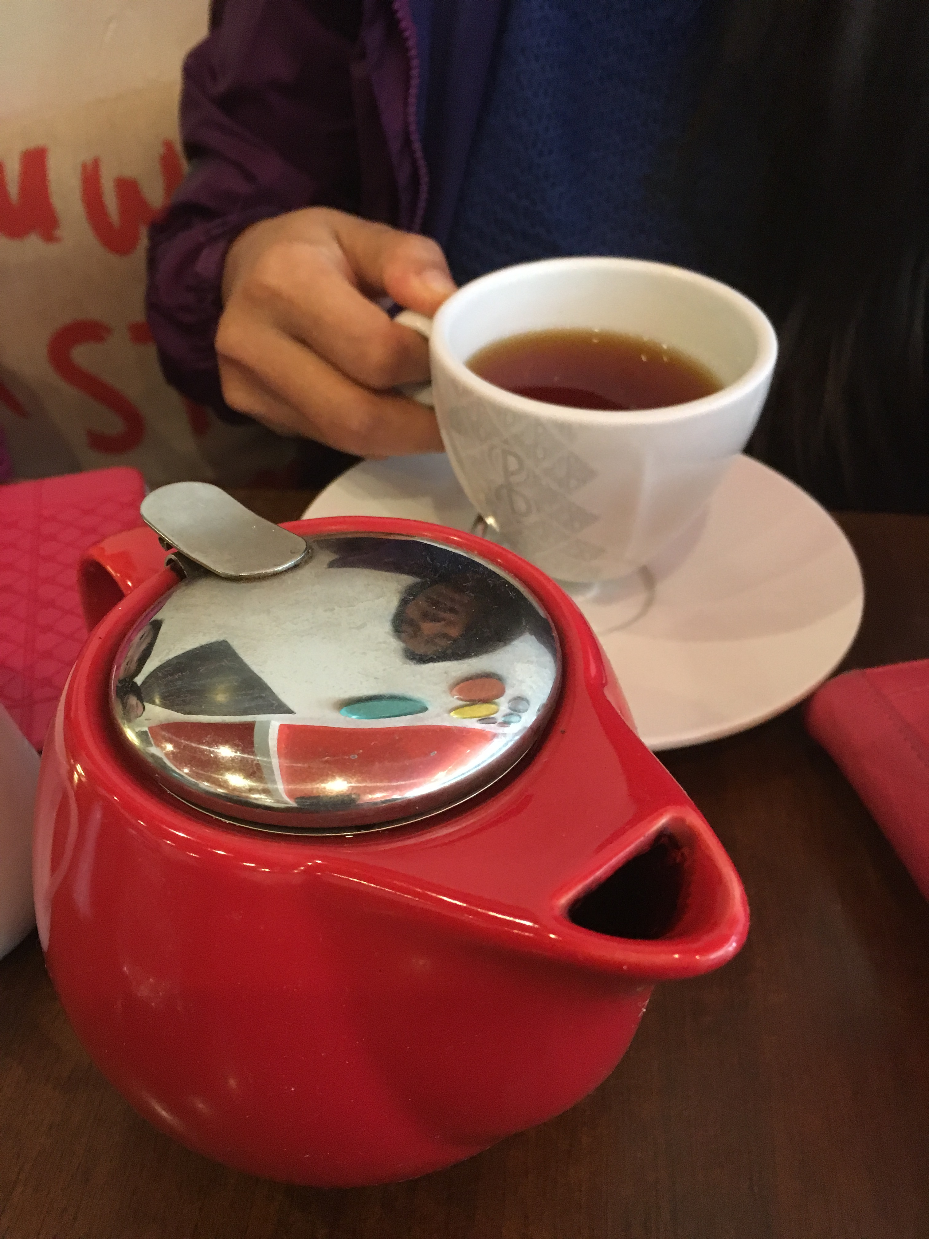 English breakfast tea, Marrickville, Sydney